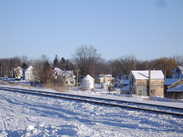 Apple River, Illinois - railway and Chestnut Street in Winter 2008